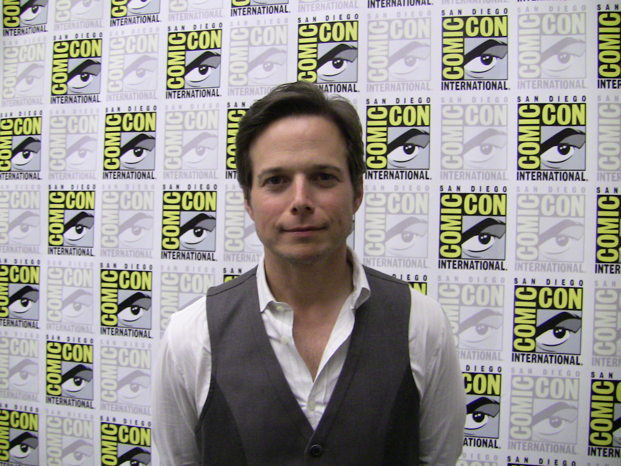 Actor Scott Wolf – Comic-Con 2009 - V - San Diego, Calif. - July 25, 2009.